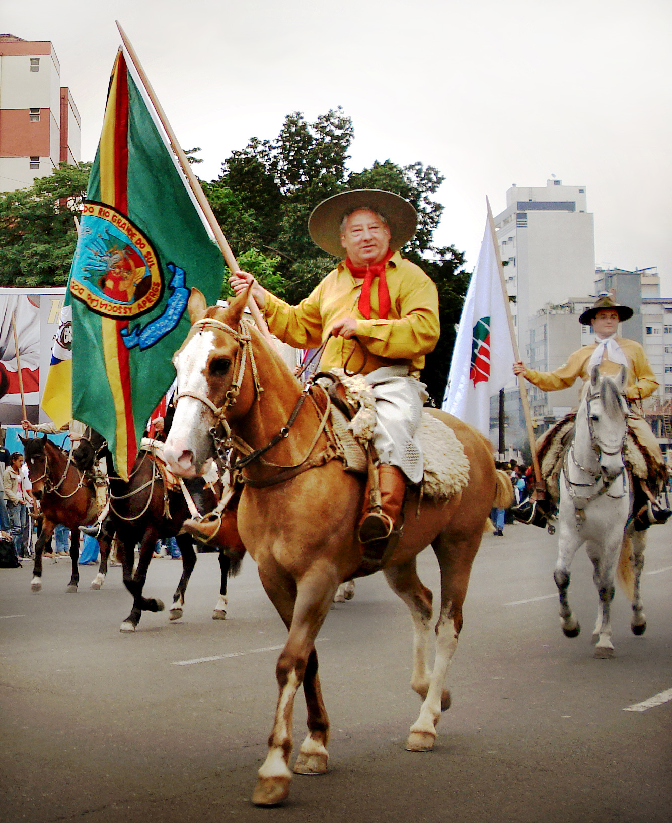 Brazilian gaucho with typical clothing on 2006 Farroupilha Parade, Rio Grande do Sul, Brazil